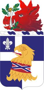 122nd Infantry Regiment Coat of Arms